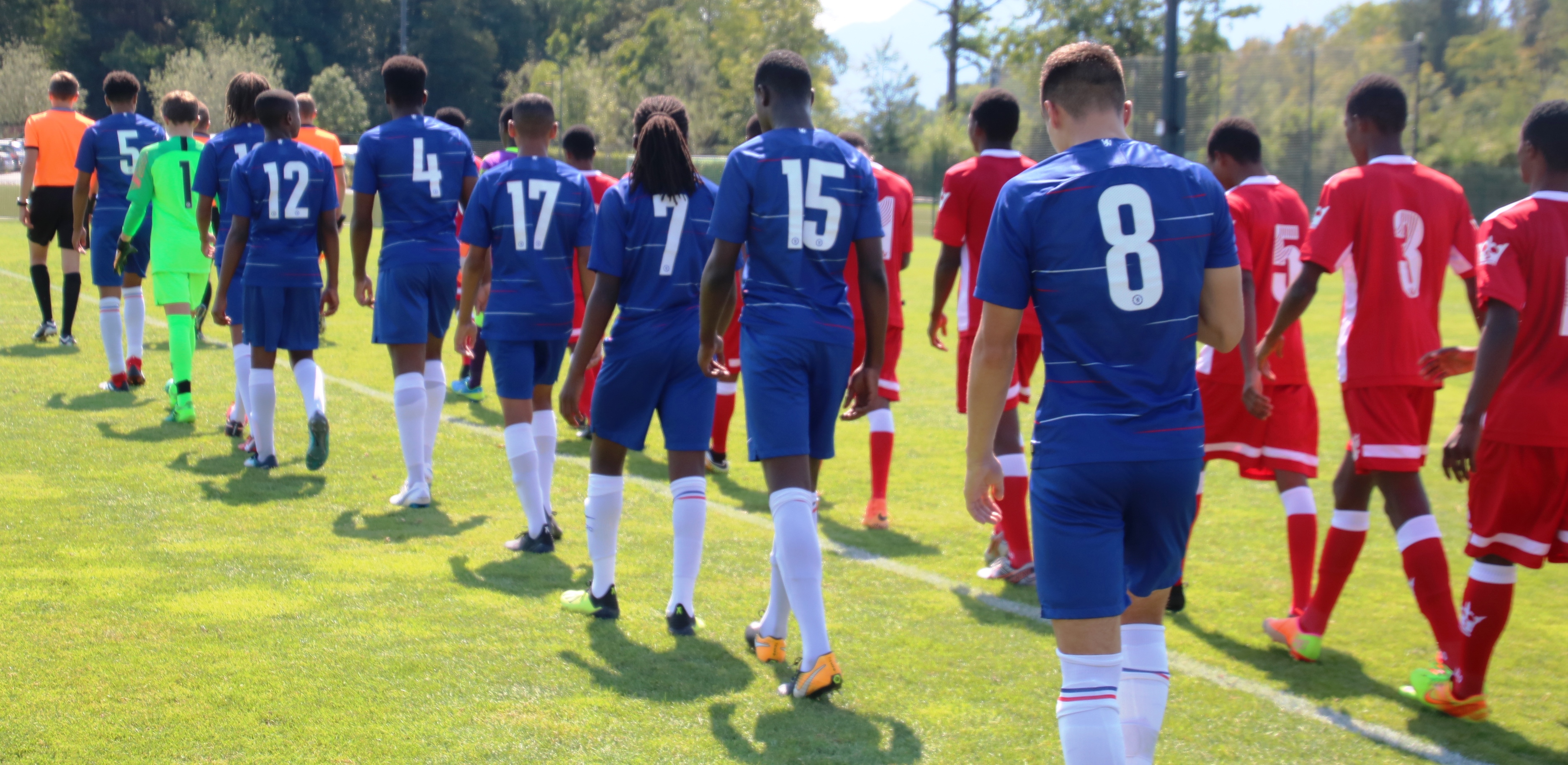 youth tournament FC Red Bull Salzburg